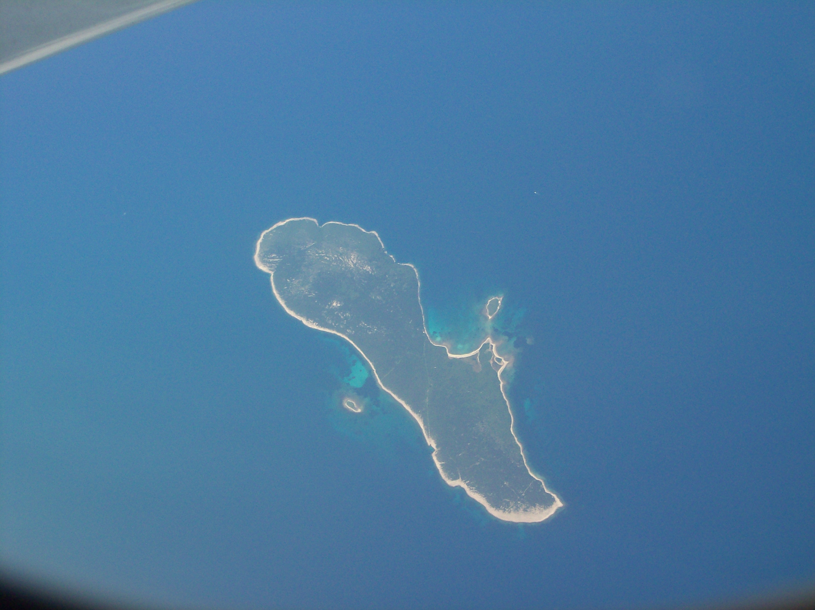 Aerial view of Zeča island, off the Cres coast, Croatia, Adriatic see.